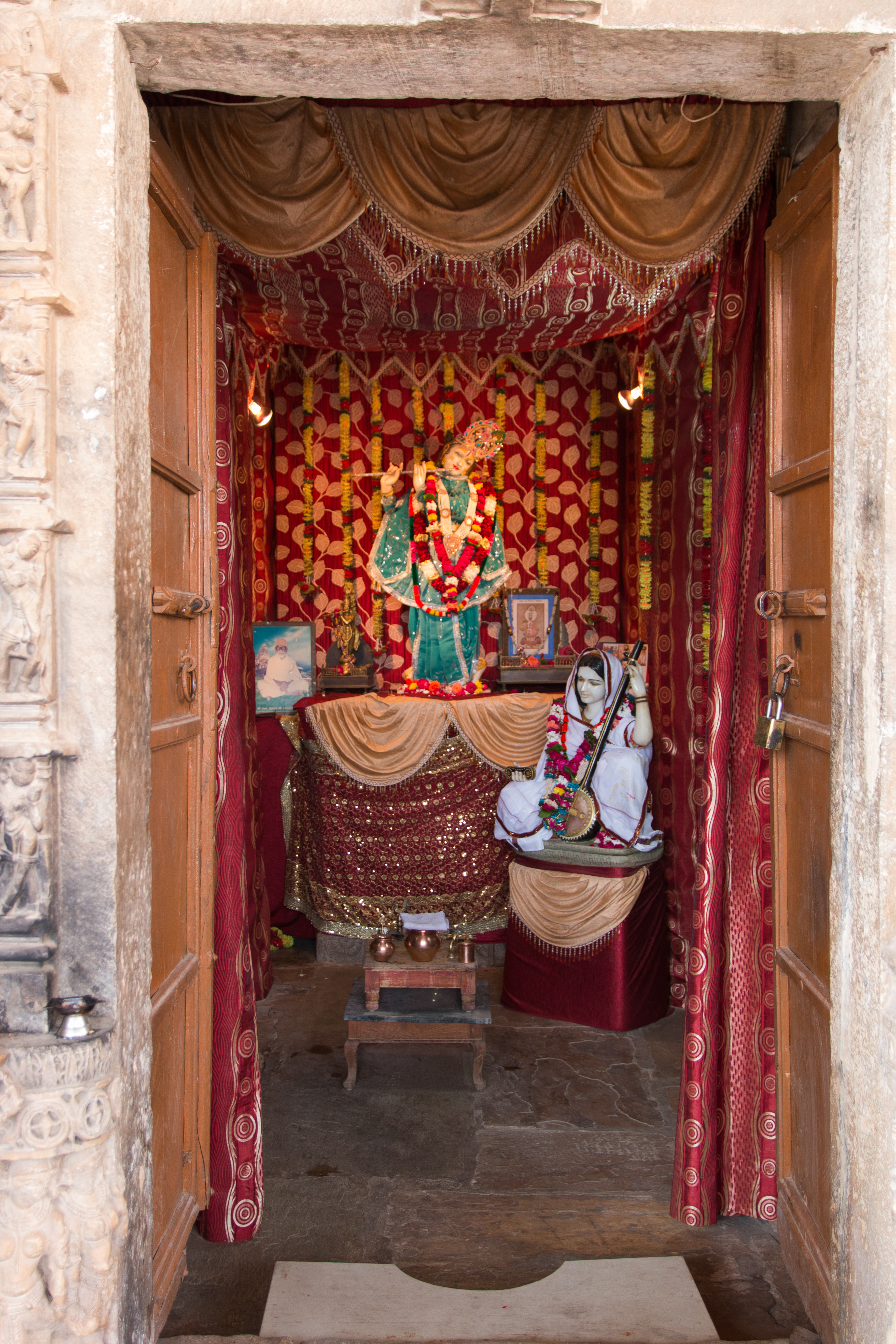 Cella of Krishna.